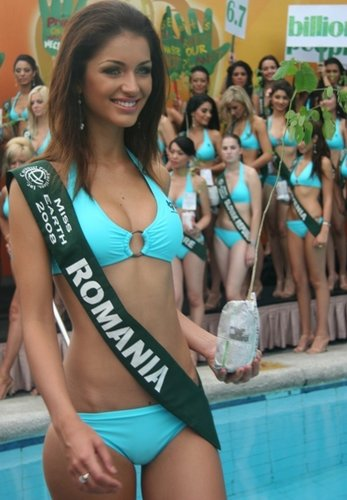 Ruxandra Popa - Miss Earth Romania 2008